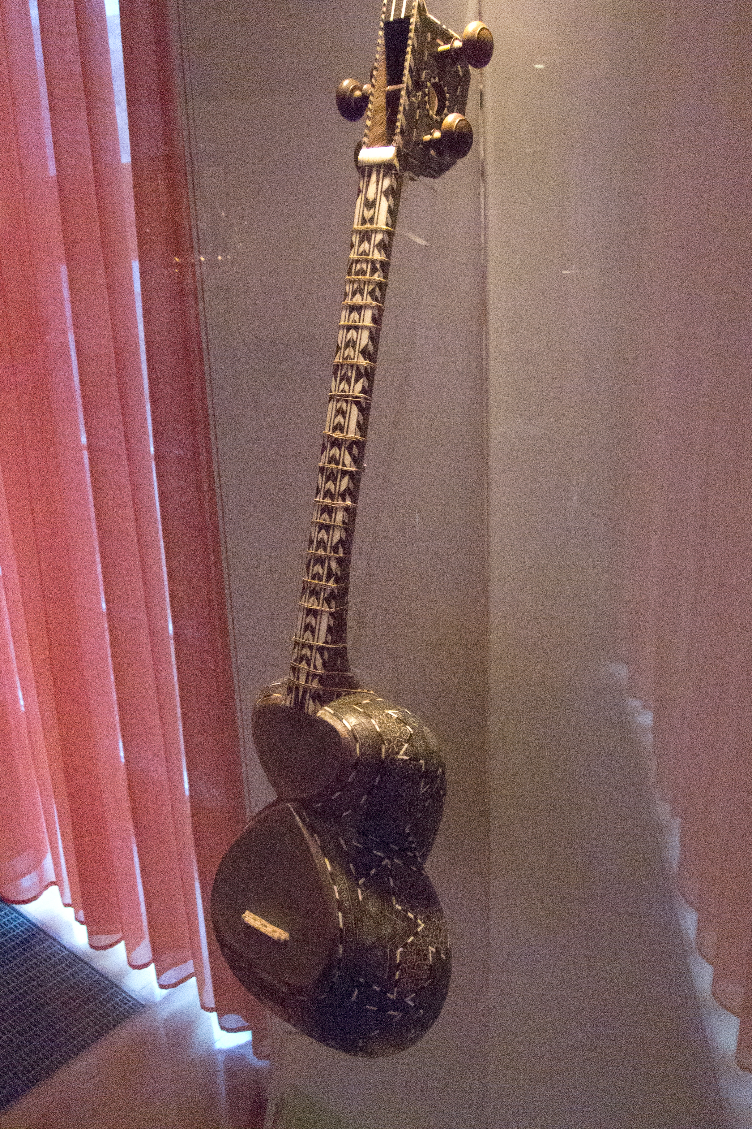 Tar (1898) by Isfahan Khâchik, MfM.Uni-Leipzig “African instrument, Leipzig 2012” References ULEI:M0002206 Tar (Tār), Isfahan Khâchik, 1898, Inv.-Nr.2212. Musical Instrument Museums Online (MIMO). "Inscription: ١٣١۶ ﺸﻮّال ﺸﻬﺮ ﻣﺳﻳﺣﻰ ﻧﺧّﺎﺭ ﺨﻮﺍﭼﻳﻚ ﺍوﺳﺗﺎﺩ ﻋﻣﻞ"